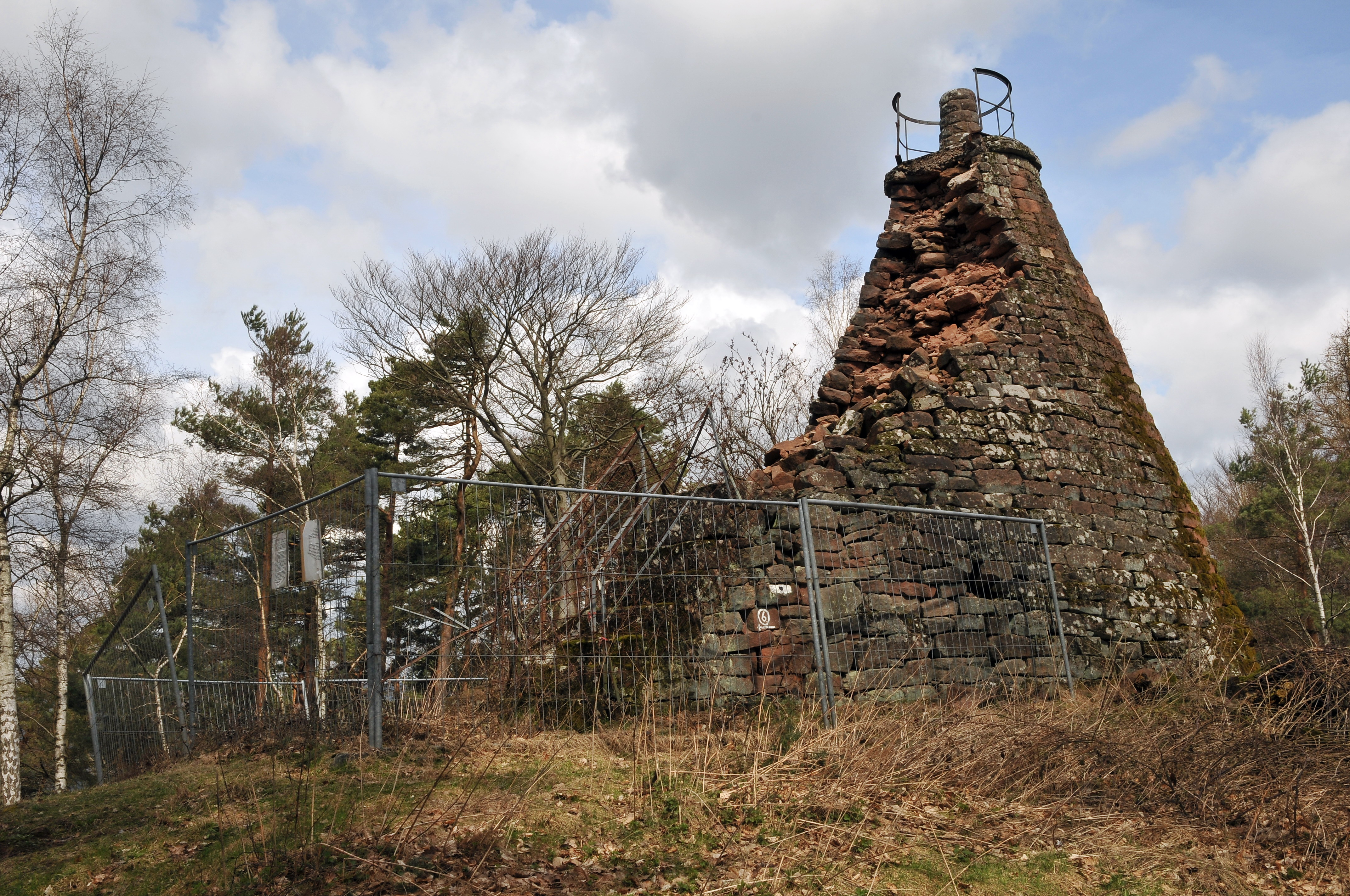 Hohenberg- look out tower, tumbled down.